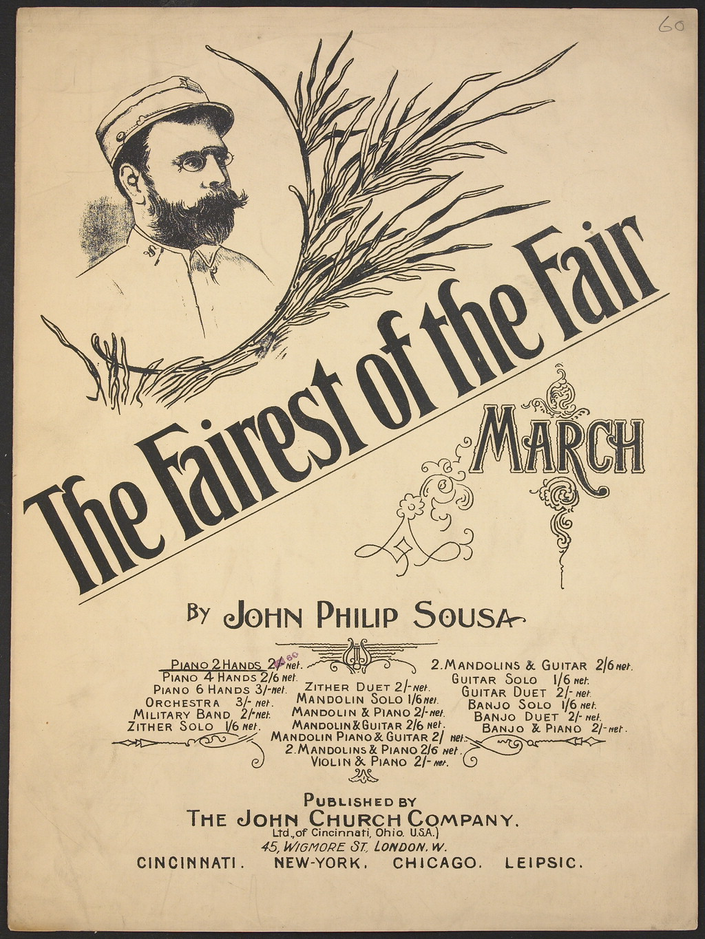 Sheet music of "The Fairest of the Fair", by John Philip Sousa - page 1